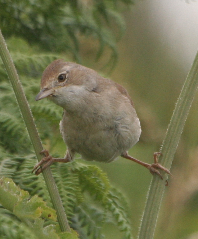 a female whitethroat (I think) on the south Cornish coast east of Portschatho